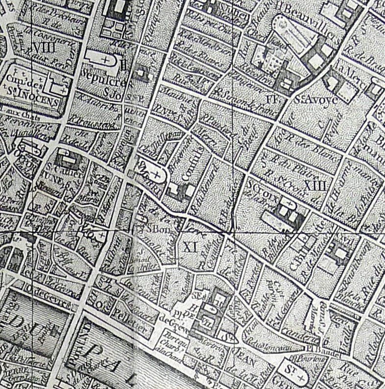 Vaugondy's map of Paris (Saint-Merri district) -1760